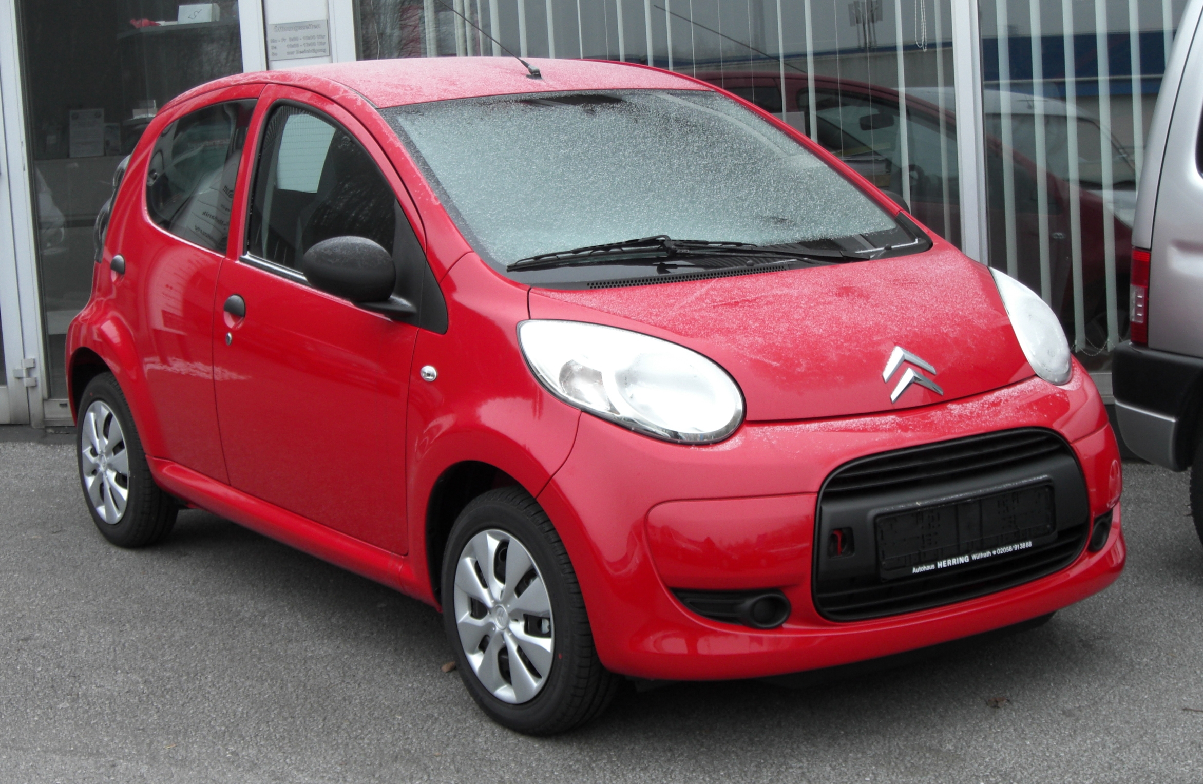 Citroën C1